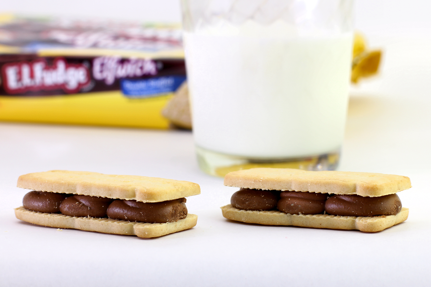 Keebler E.L. Fudge Cookies, Double Stuffed variety. Keebler is currently owned by Kellogg Company.